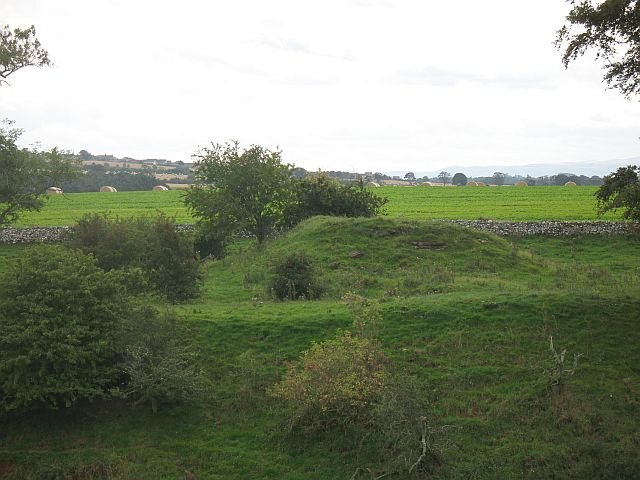 Billie Castle Little remains of Billie Castle, a few stones, and a mound that is probably a pile of rubble from the collapsed tower.